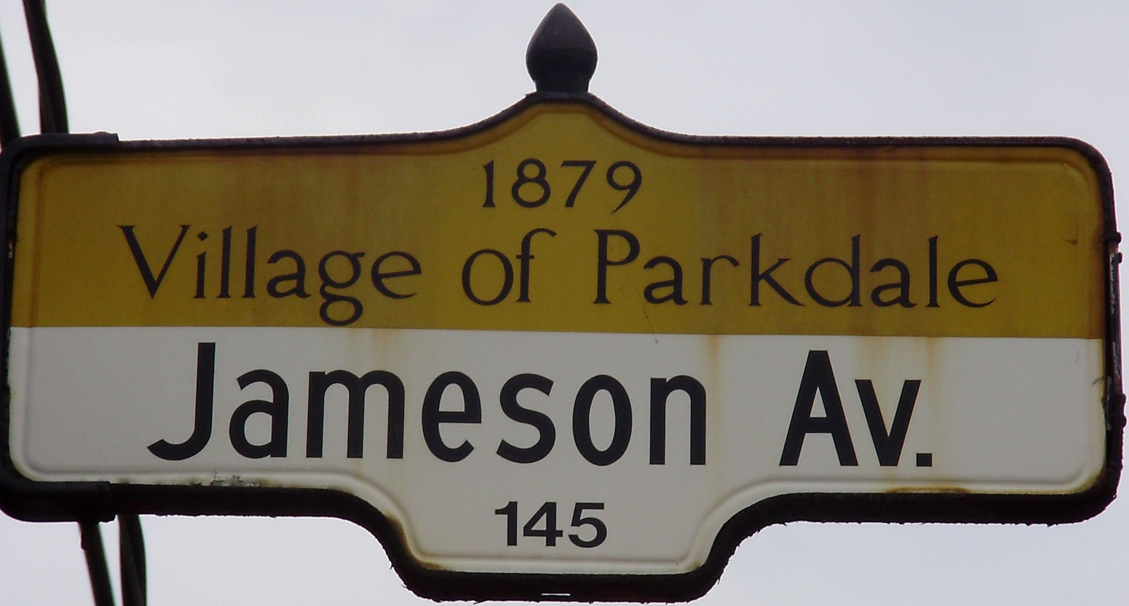 A street sign for Jameson Avenue in the Village of Parkdale design in Toronto, Ontario, Canada.